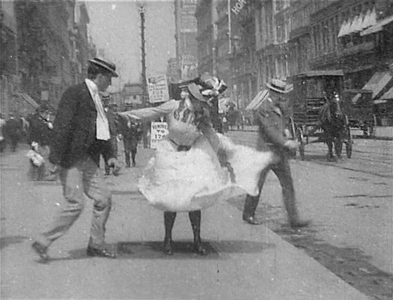 What Happened on Twenty-third Street, New York City is a 1901 American short film depicting Florence Georgie walking over a grate, the hot air lifting her skirt.